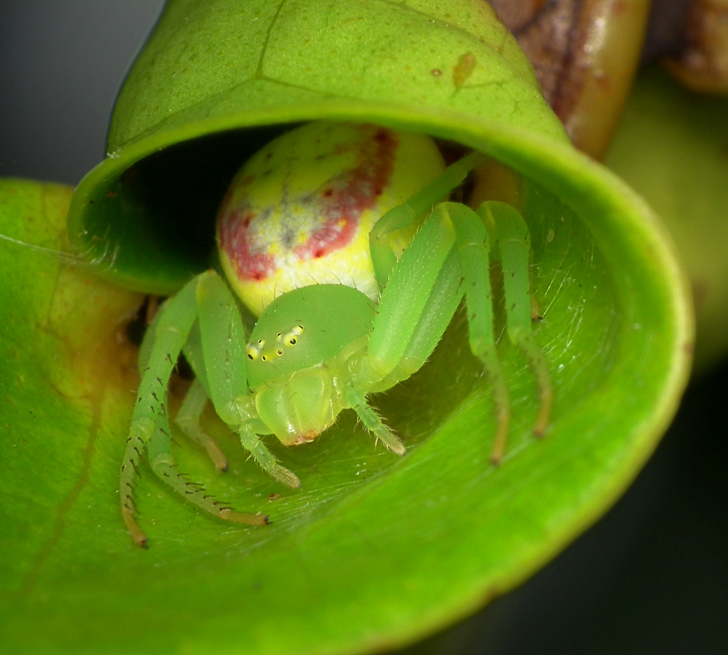 A female Pink Flower Spider (Lehtinelagia evanida) hides in the leaves of a lemon myrtle tree at Acacia Ridge, Brisbane, Australia.